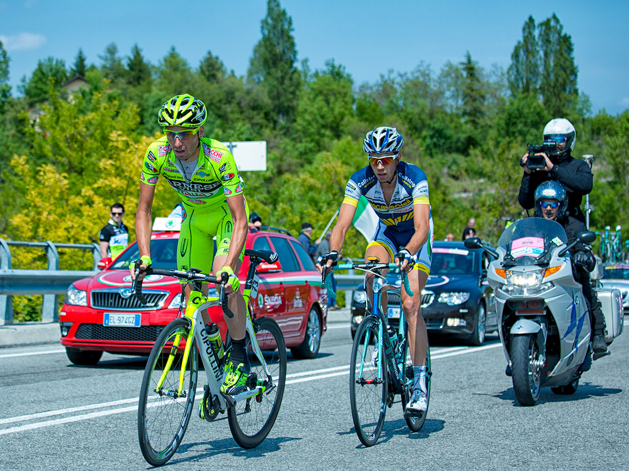 Farnese Vini-Selle Italia's Francesco Failli and Vacansoleil-DCM rider Martijn Keizer during stage 13 Giro d'Italia 2012 Exposure 1/1250 Aperture f/4 Focal Length 70 mm ISO Speed 100